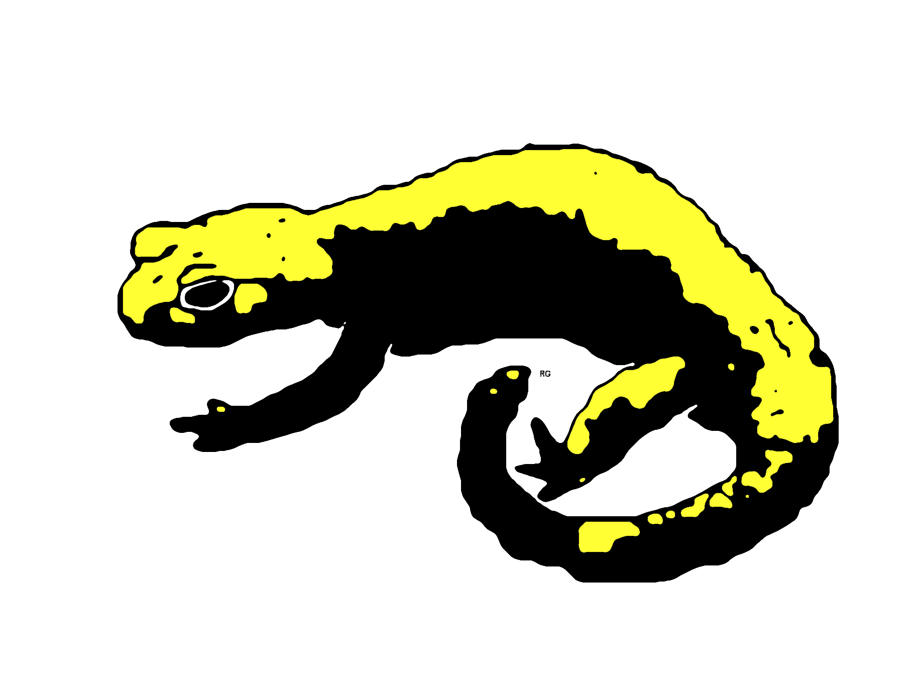 Salamandra atra aurorae TREVISAN, 1982 ( Golden Alpine Salamander ) adult male; endemic (sub)species of the cimbrian commune of Asiago / Sleeghe on the Altopiano di Asiago in the italian province of Vicenza / Veneto; cimbrian name: Güllandar Ekkelsturtzo ( painting by Remigius Geiser / Salzburg, Austria )